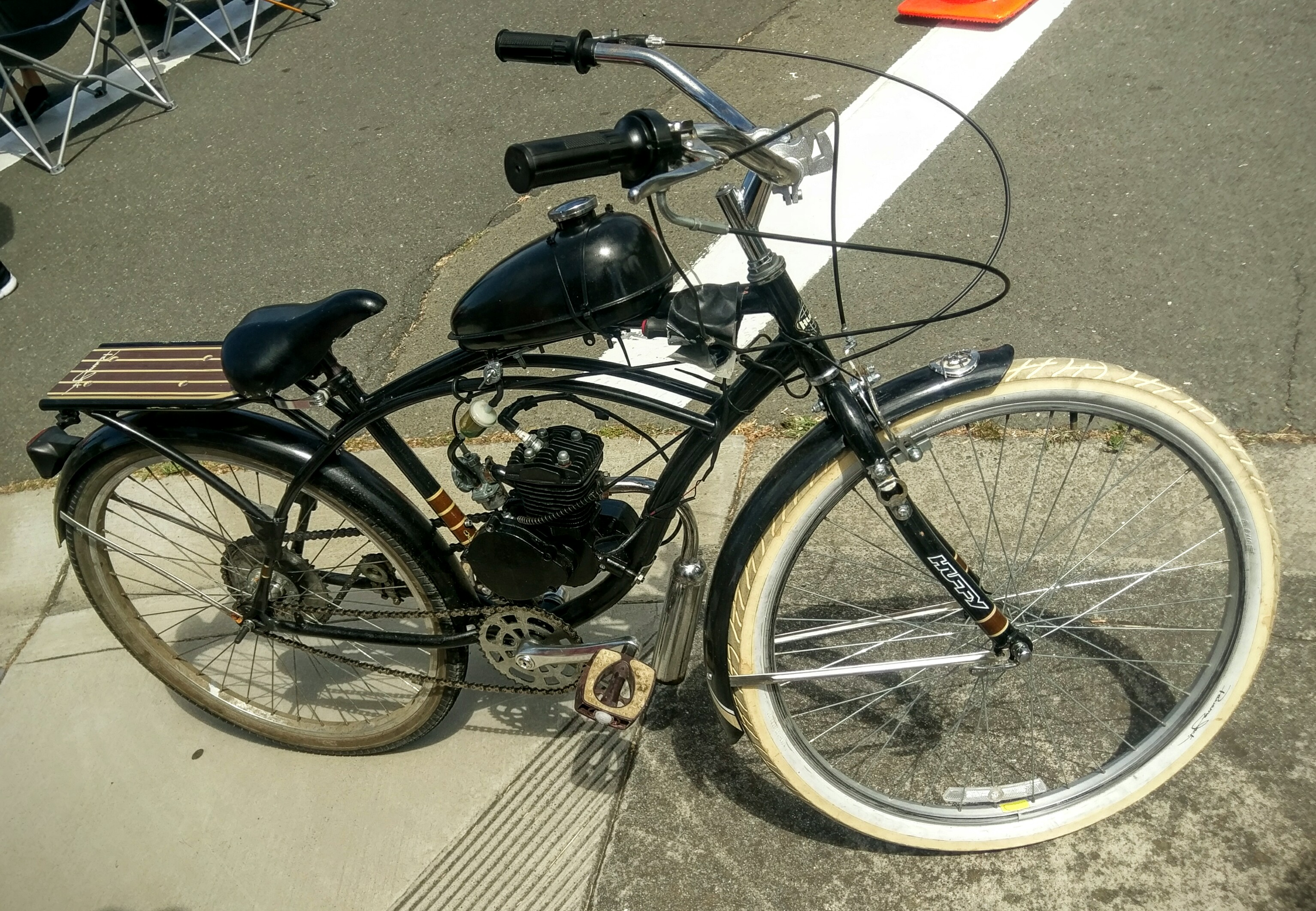 A conventional Huffy bicycle converted with a bolt-on gasoline engine and fuel tank. Photo by Jim Heaphy.